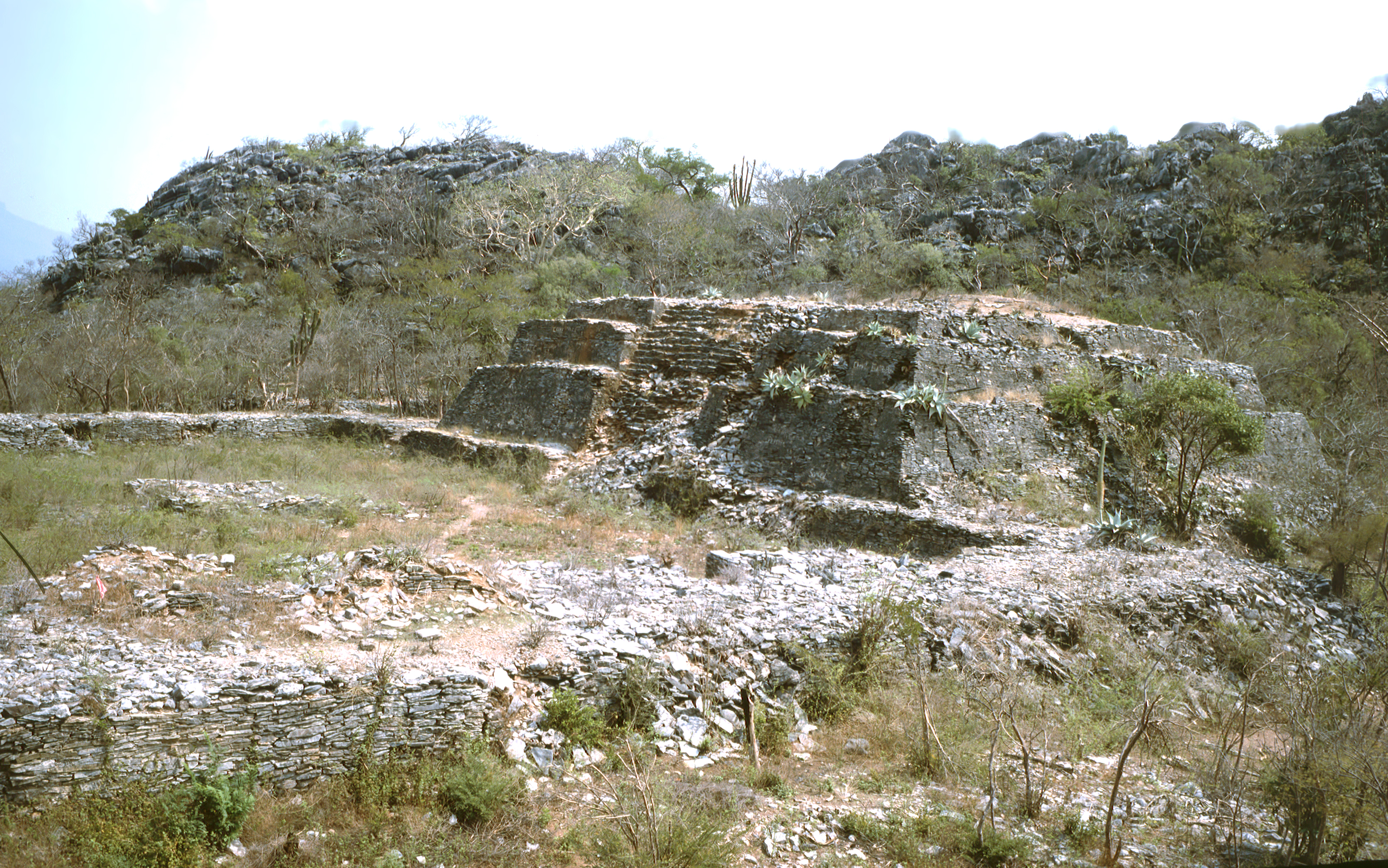 Guiengola, Oaxaca, Mexico.